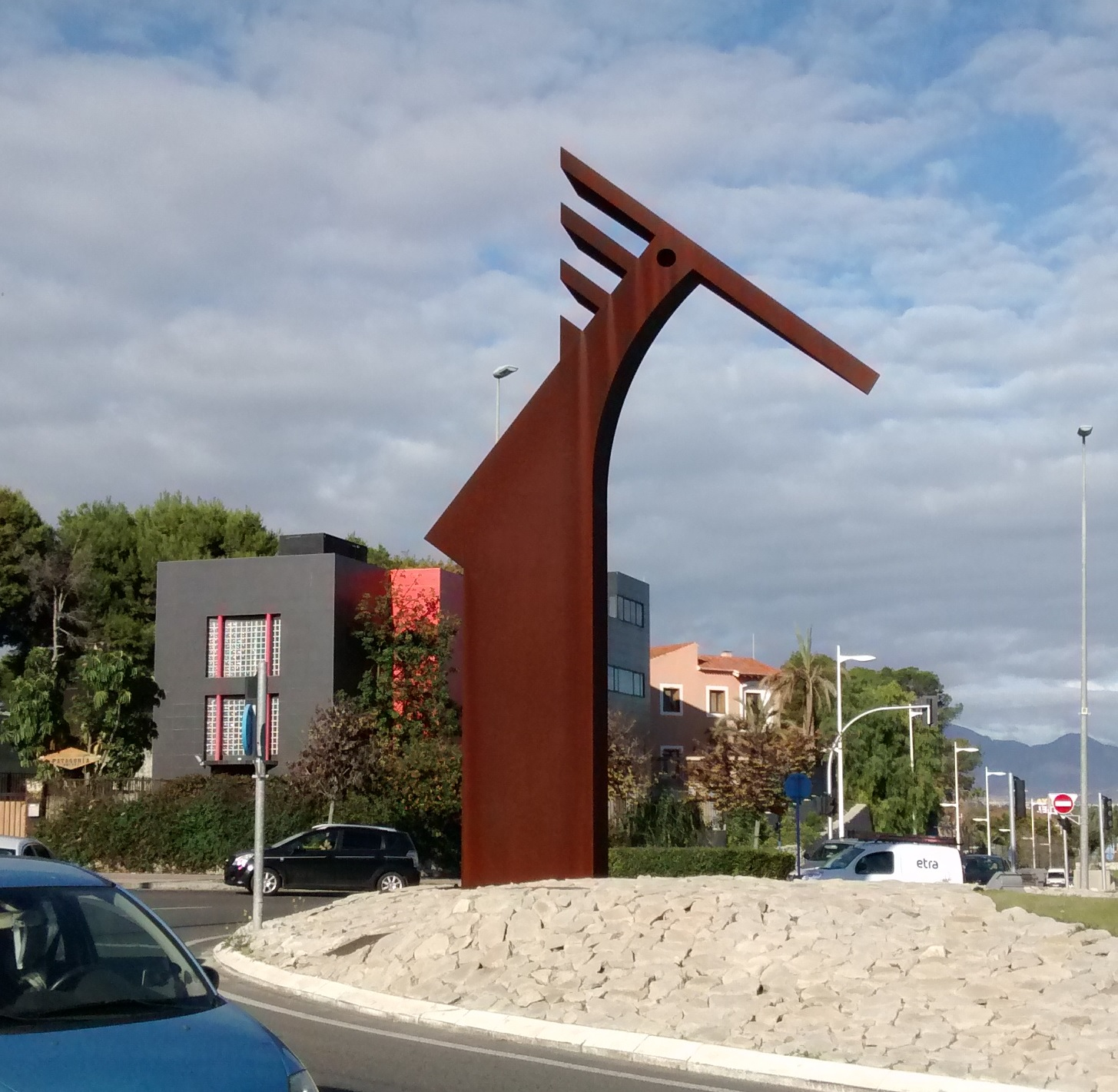 Sculpture in Alicante